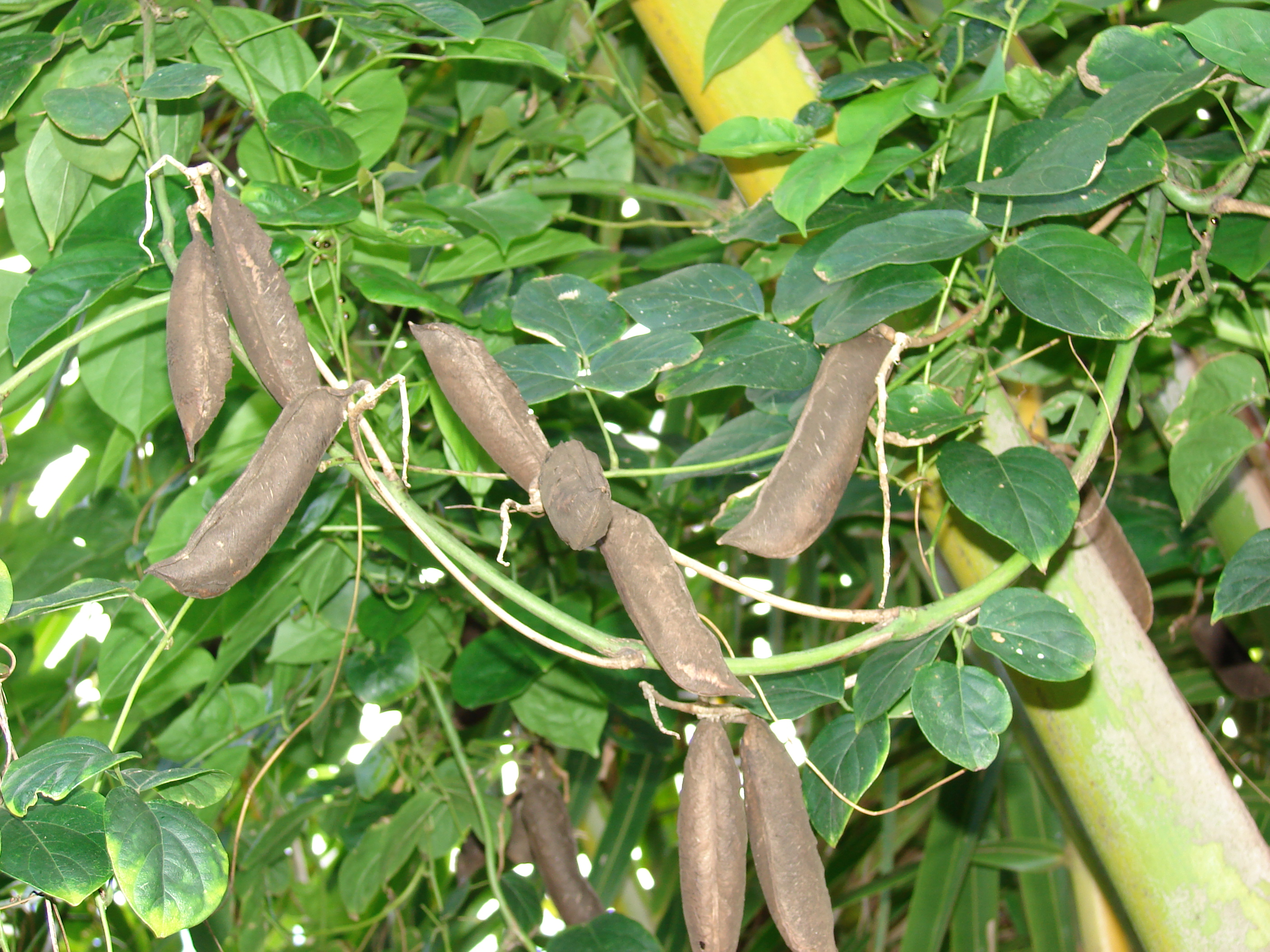 Canavalia cathartica (leaves and seedpods). Location: Maui, Hana